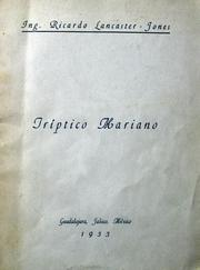 Cover of the book "Tríptico Mariano" (first edition) by Ricardo Lancaster-Jones y Verea.